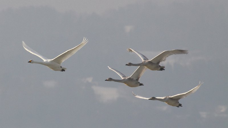 Whooper Swan (Cygnus cygnus)